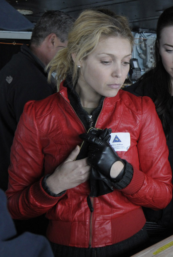 PACIFIC OCEAN (Dec. 16, 2010) Stargate Universe actress Alaina Huffman on the navigation bridge of the Nimitz-class aircraft carrier USS Carl Vinson (CVN 70).